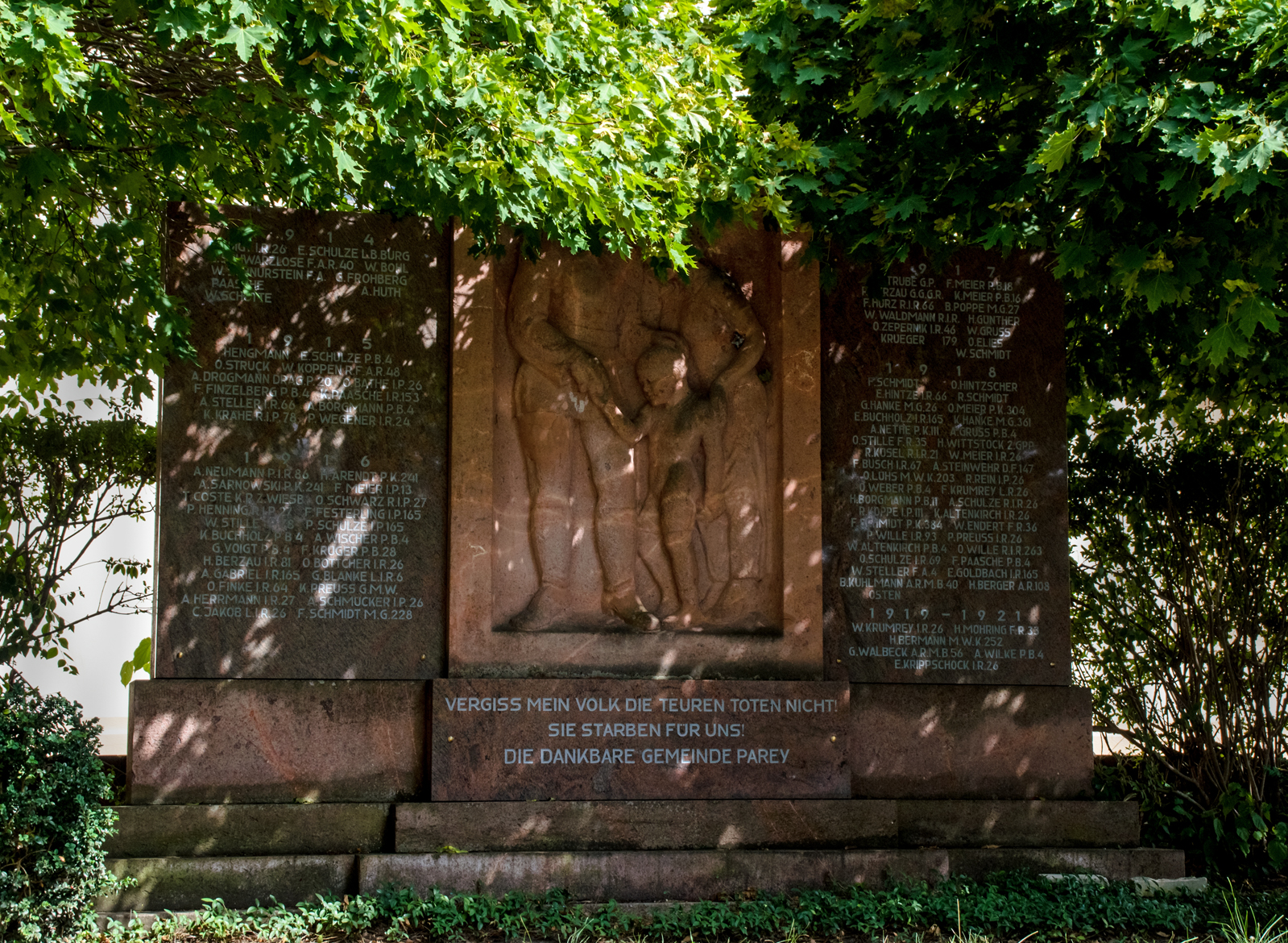 Memorial at the church Holy Trinity Parey / Elbe